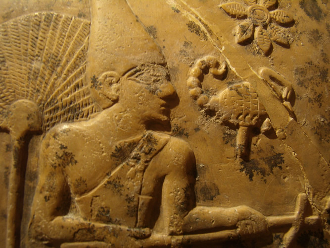 King Scorpion, detail from his mace head, Ashmolean Museum, Oxford